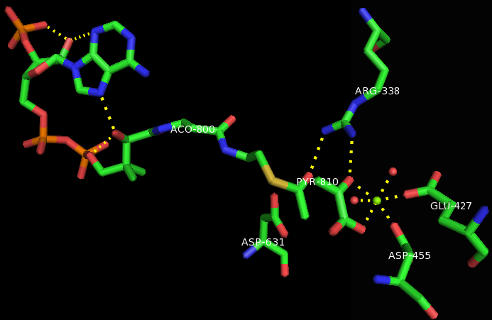 This depicts the active site of malate synthase, with relevant amino acids crystallized with a pyruvate molecule instead of glyoxylate. ACO stands for acetyl-CoA, which is shown in its bent J configuration. The octahedral coordinating Mg2+ cation is shown in green. Red dots are the water molecules. Yellow bonds show polar contacts.